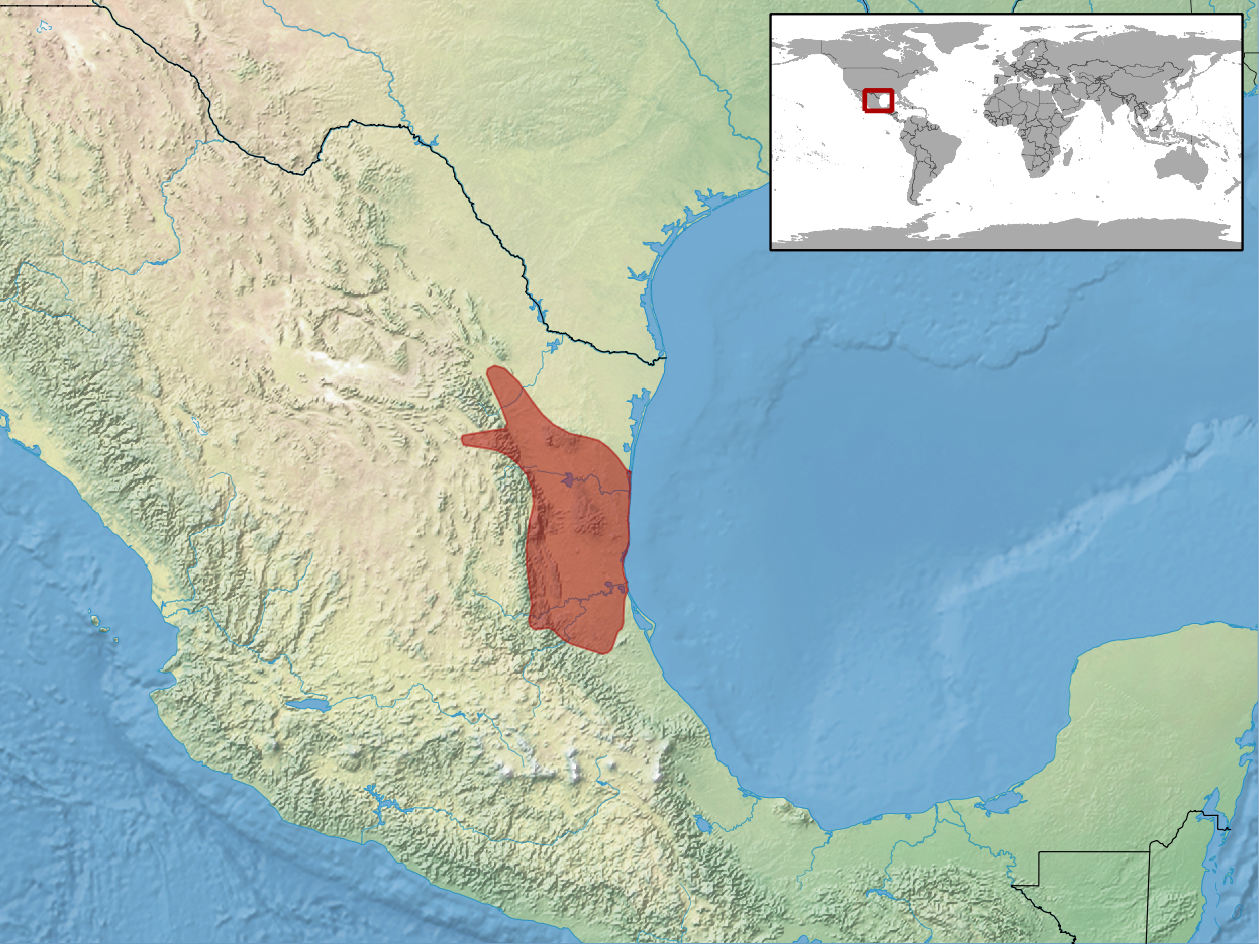 geographic distribution of Agkistrodon taylori (Native: Mexico)